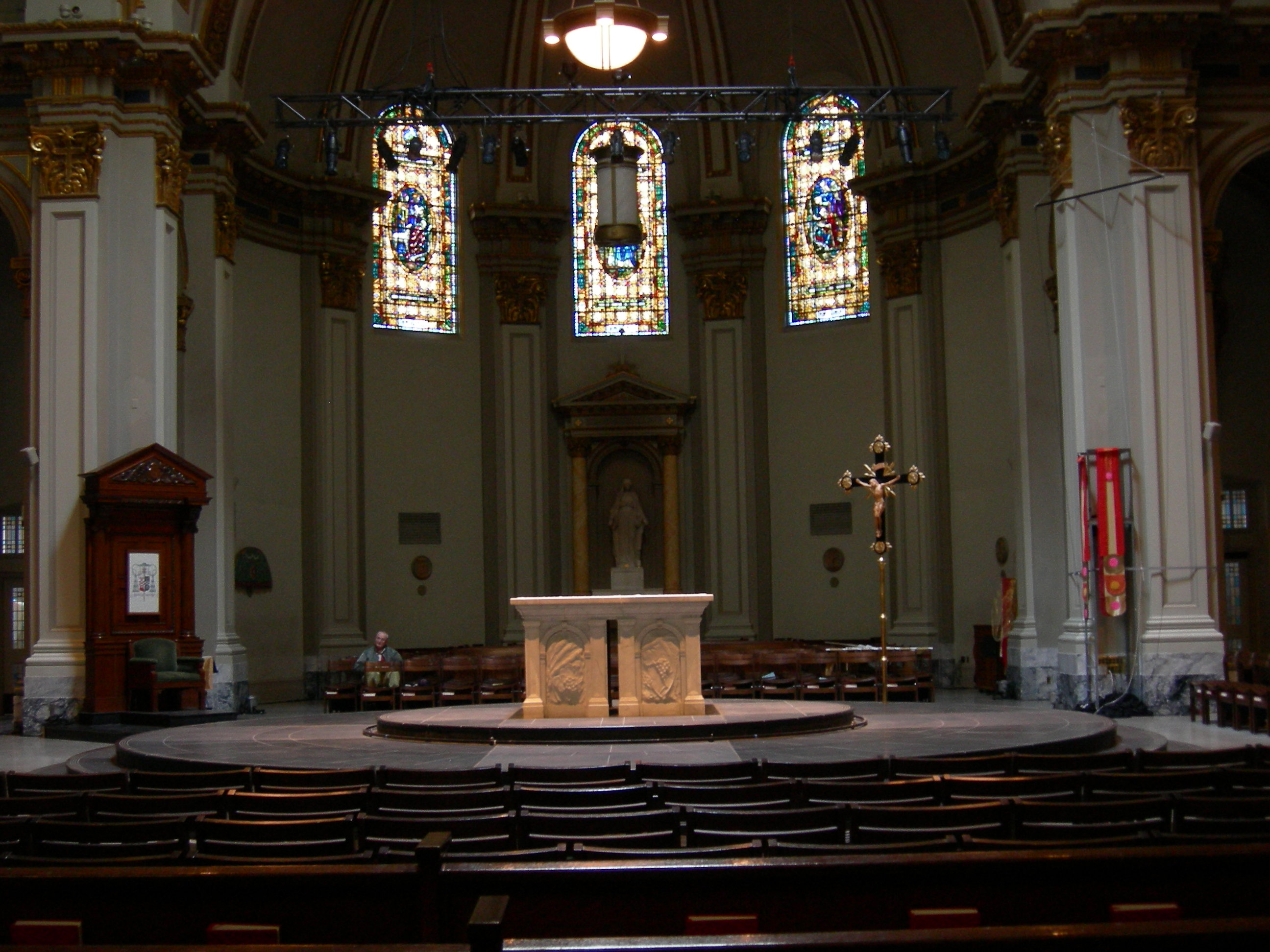 Altar, St. James Cathedral (Roman Catholic), First Hill, Seattle, Washington.